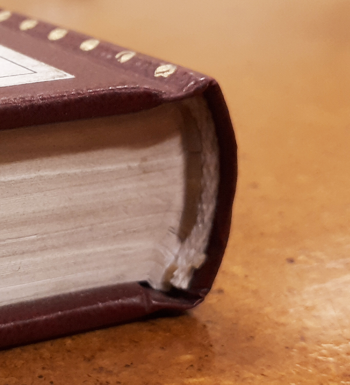 The spine of the book